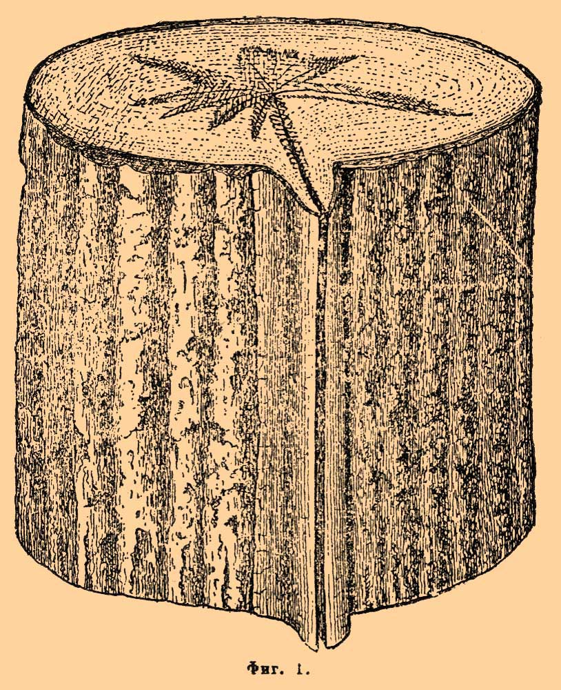 Illustration from Brockhaus and Efron Encyclopedic Dictionary (1890—1907)